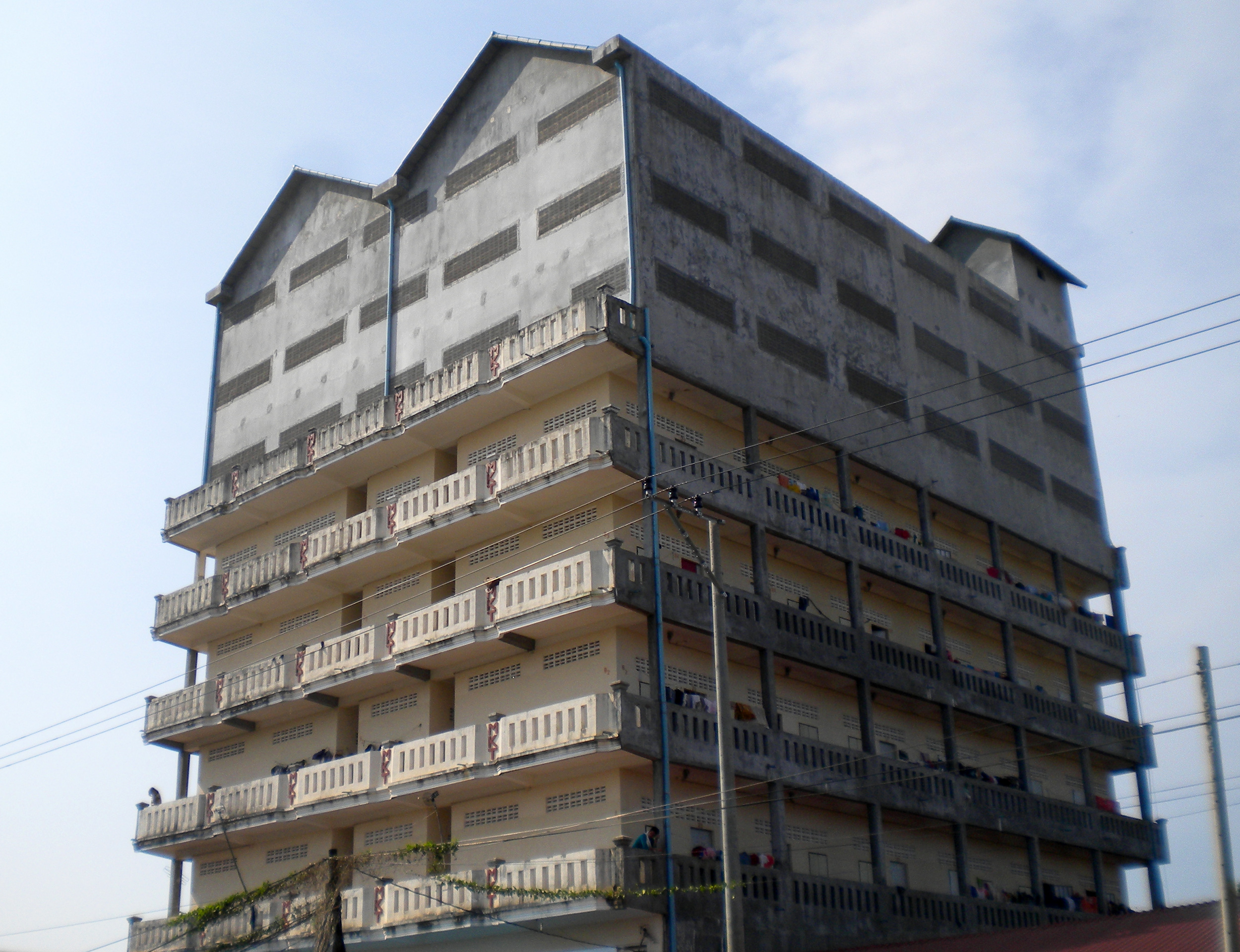 image of factory worker's home and bird's house, Sihanoukville, 2014